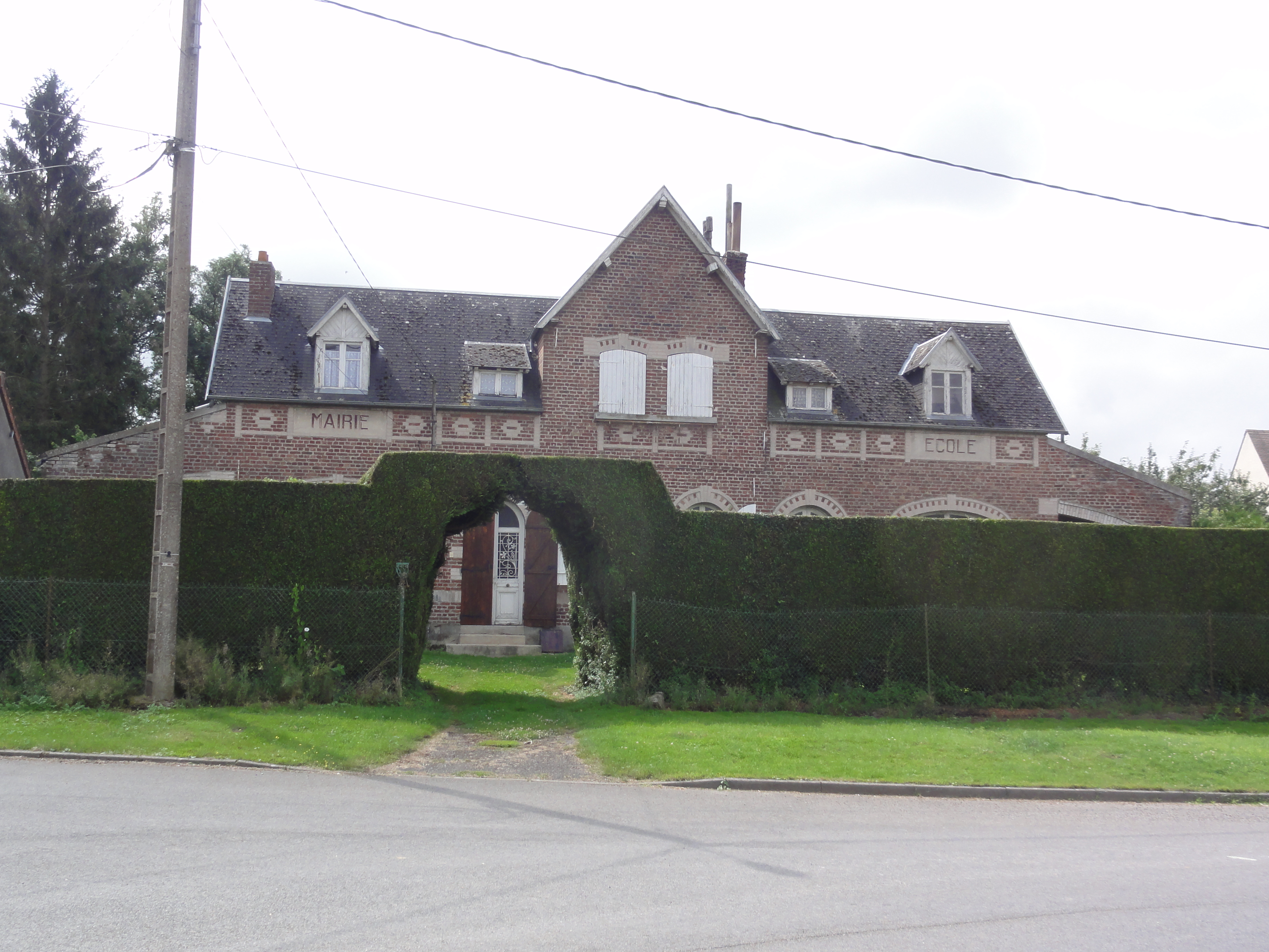 Lanchy (Aisne) mairie-école